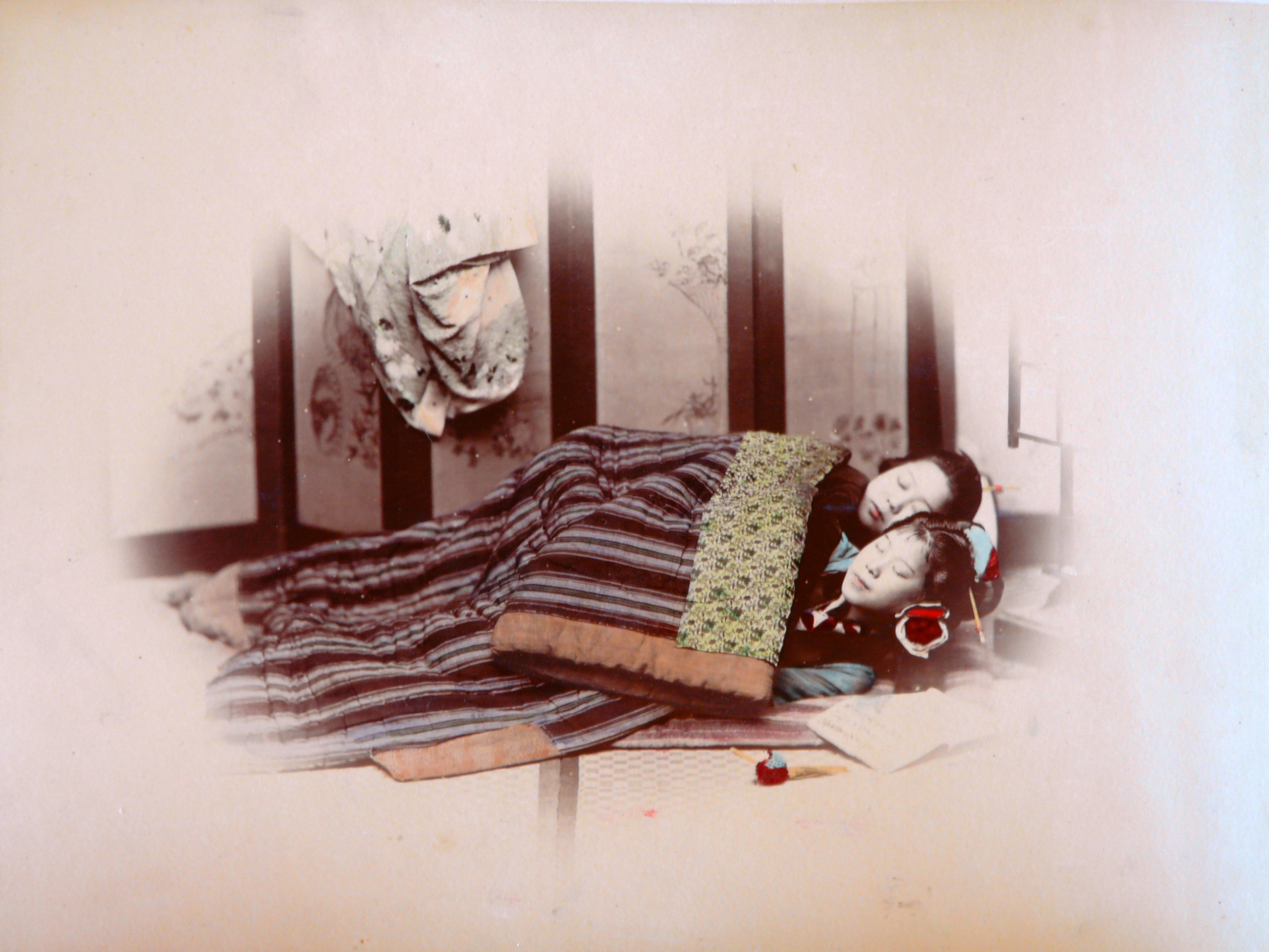 Painted photograph from Japan, dating from before 1886, according to a written note on the album containing the photographs. Presumed Author of the original photographs: Adolfo Farsari.